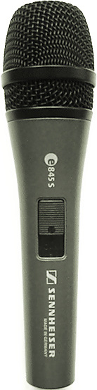 Dynamic Microphone (Sennheiser)